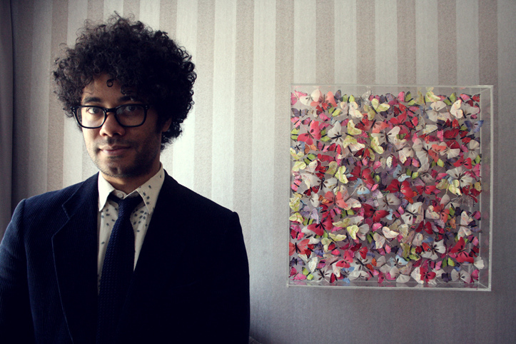 Richard Ayoade at the Soho Hotel, London.